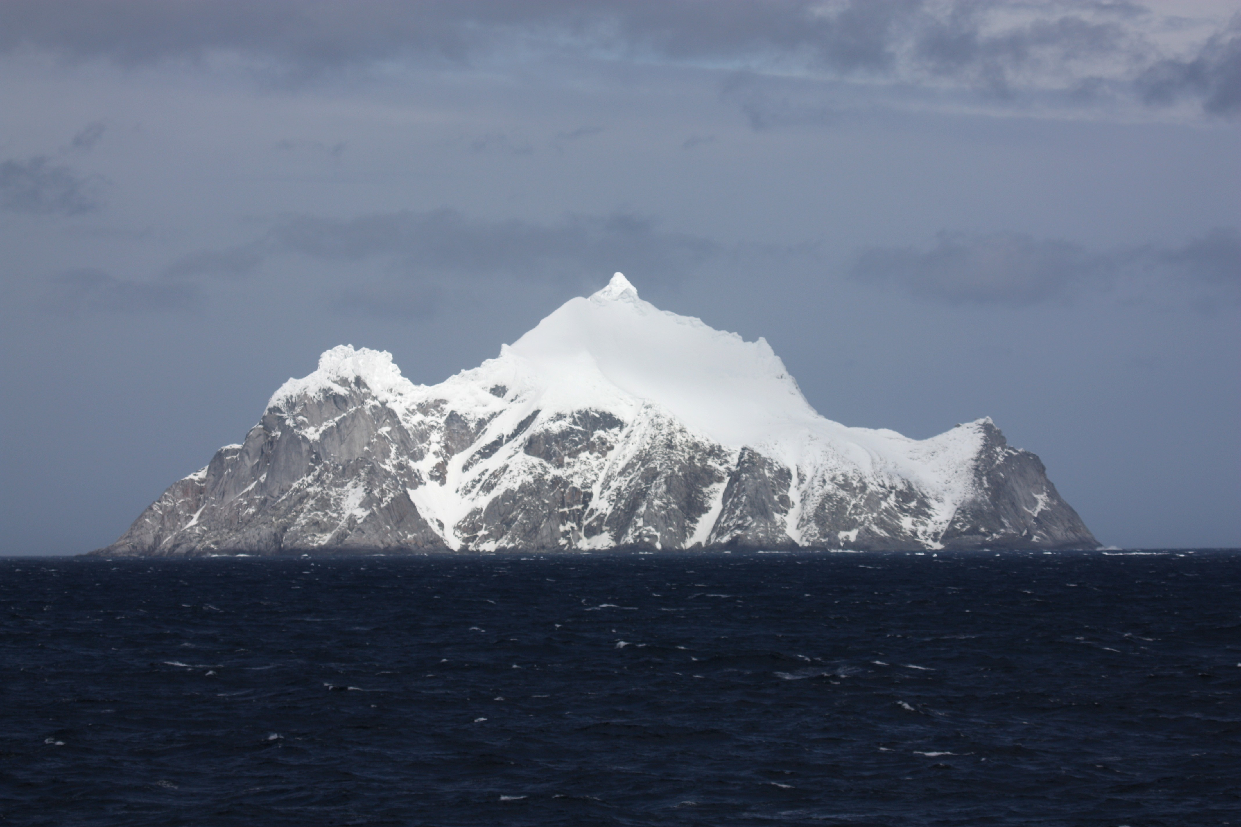 Cornwallis Island, South Shetland, December 2014.